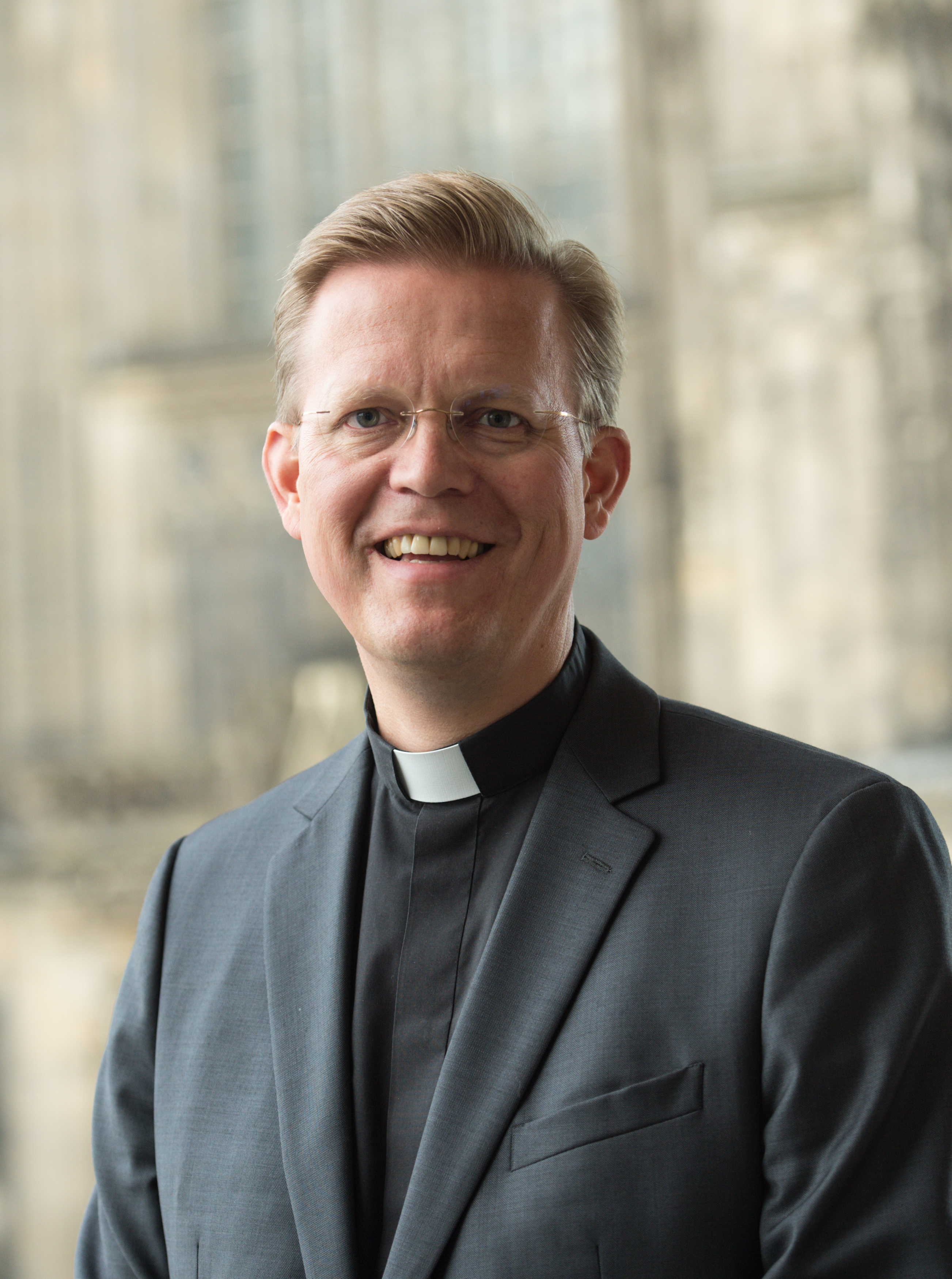 Dominik Meiering is a catholic priest who is in charge for the Catholics in Cologne